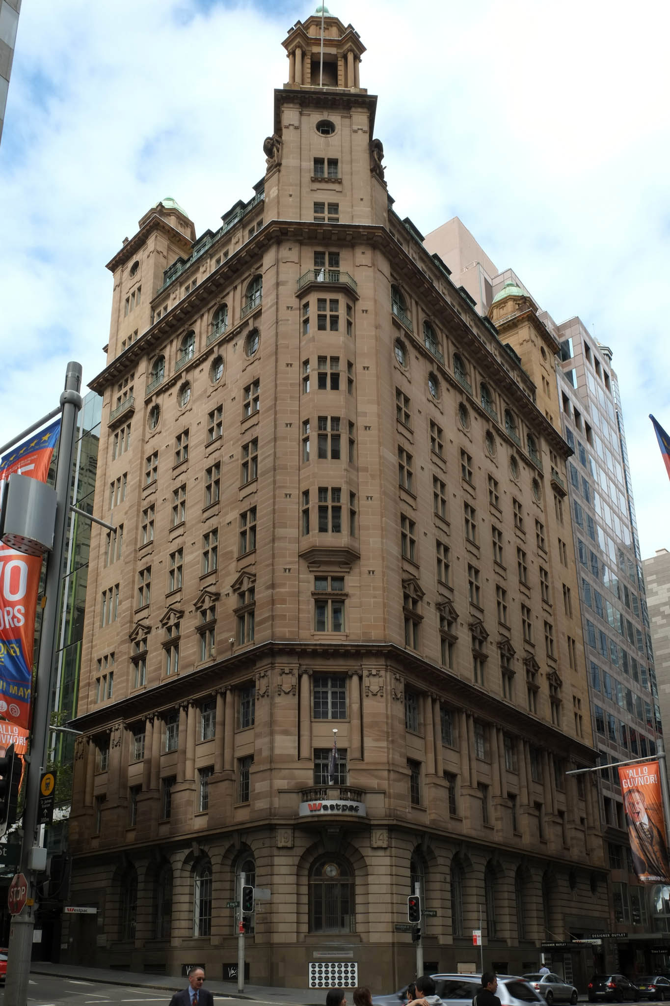 The Trust Building, located on the corner of Castlereagh and King Streets, in the Sydney central business district, New South Wales, Australia